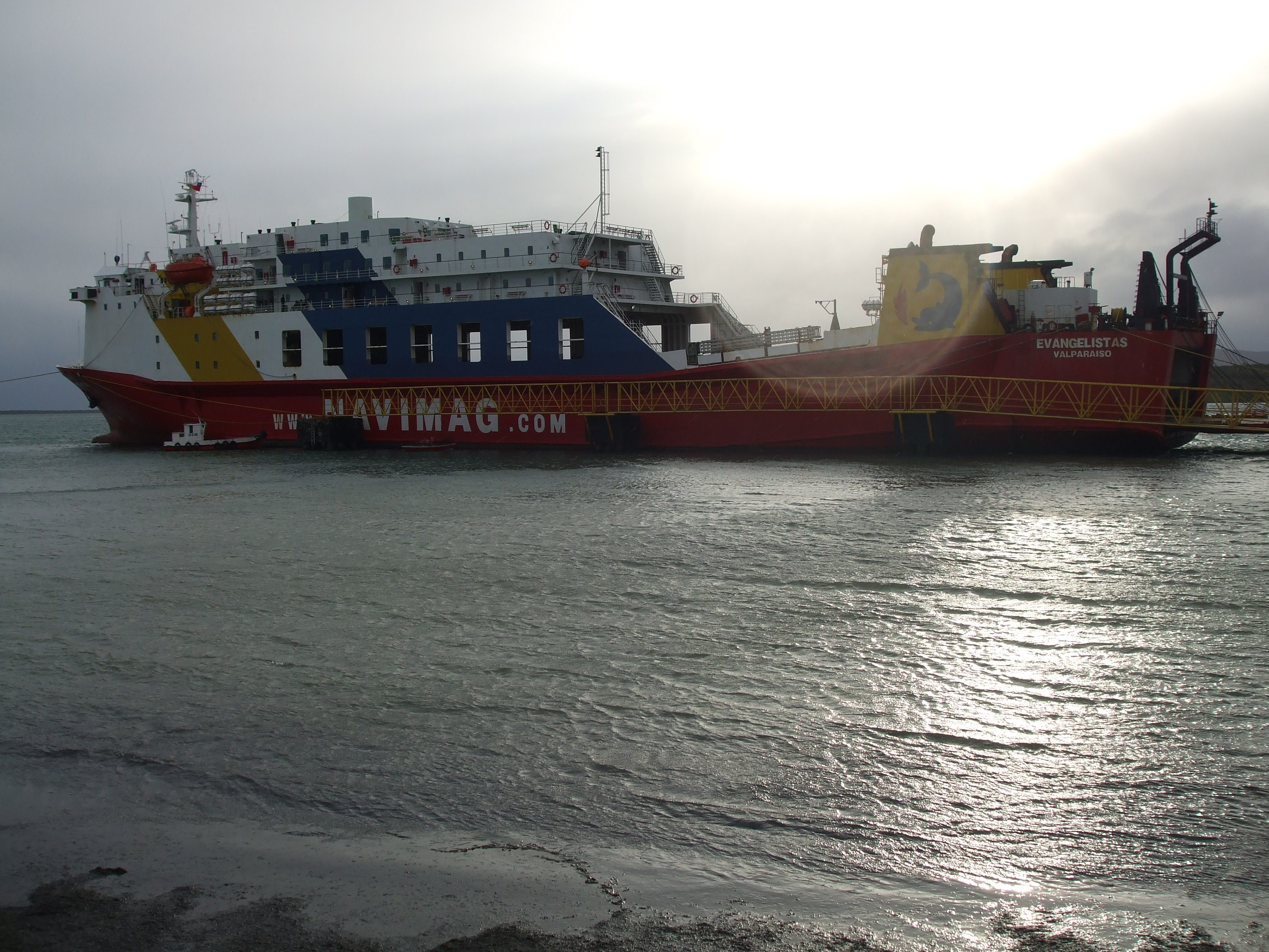 "MV Evangelistas" illimuniated by a late afternoon sunny spell berthed at Puerto Natales, Patagonia: The 1972-built Navimag ferry sails the Patagonian channels. Puerto Natales is the southern port of embarkation, the cruise to Puerto Montt takes 3 to 4 days. Template:Frn